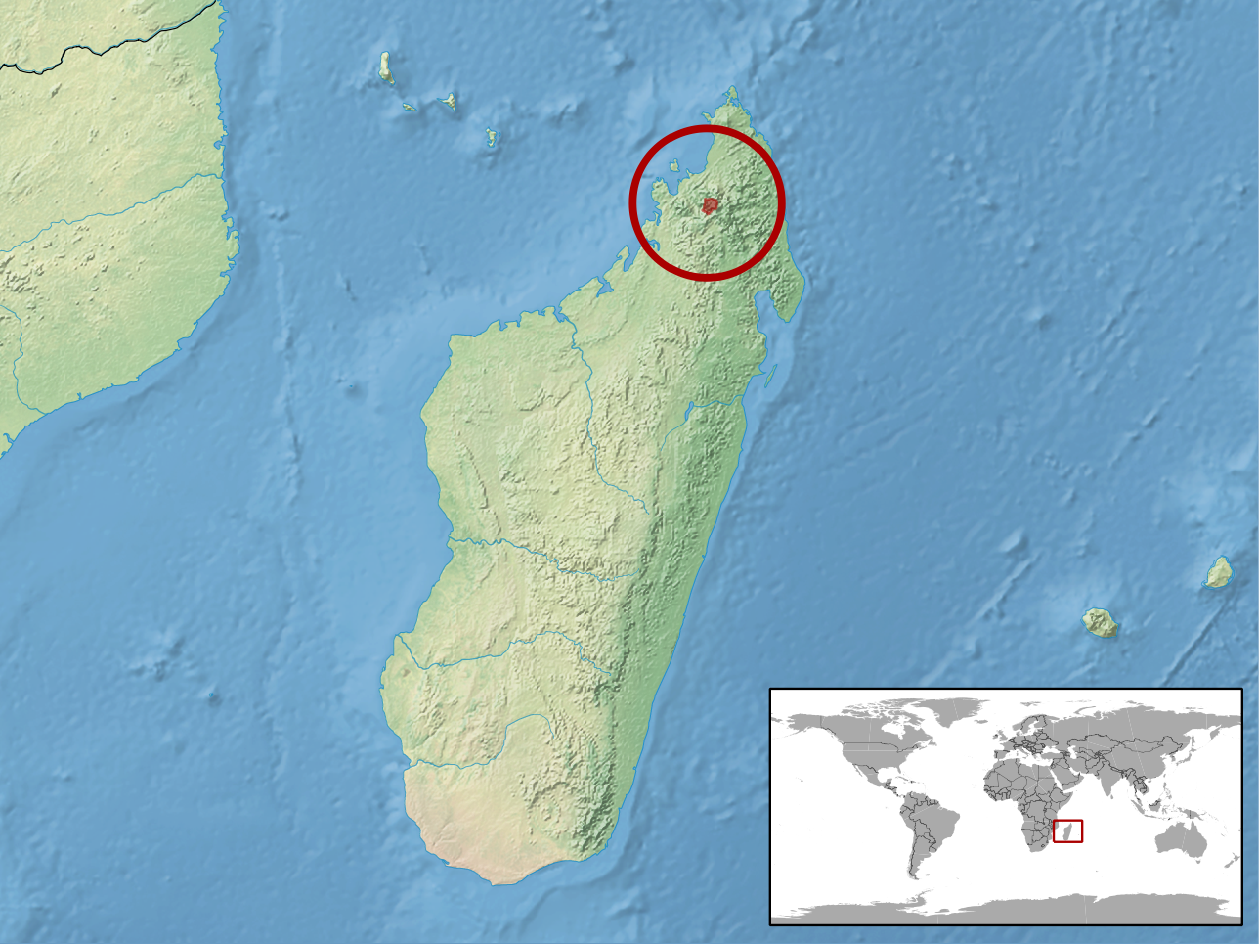 geographic distribution of Paracontias manify